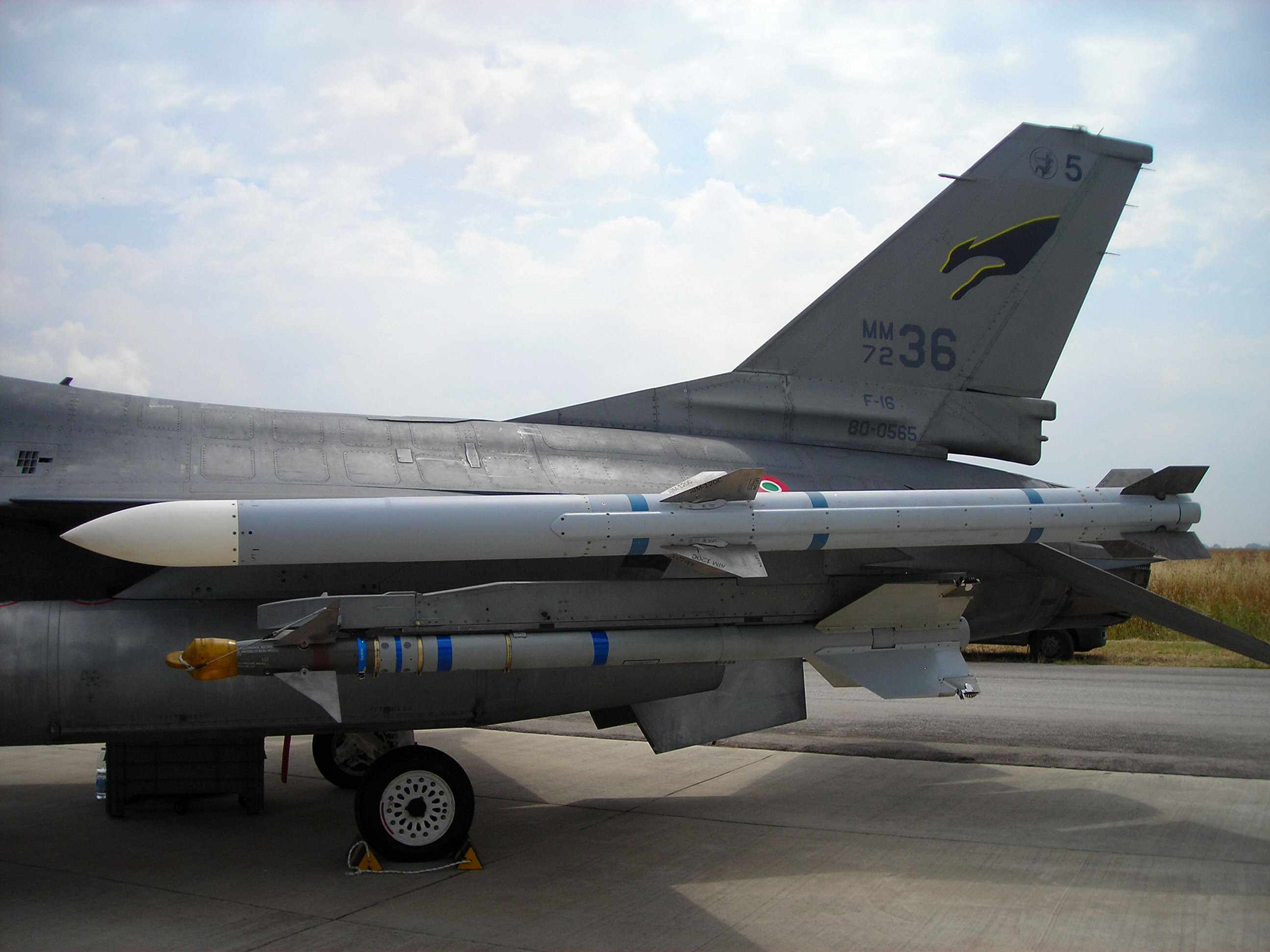 Picture taken during "Giornata Azzurra" 2007 (Italian Air Force airshow) at Pratica di Mare AFB, Italy. AIM-120 AMRAAM (top) and AIM-9 Sidewinder (down) on Italian Air Force F-16